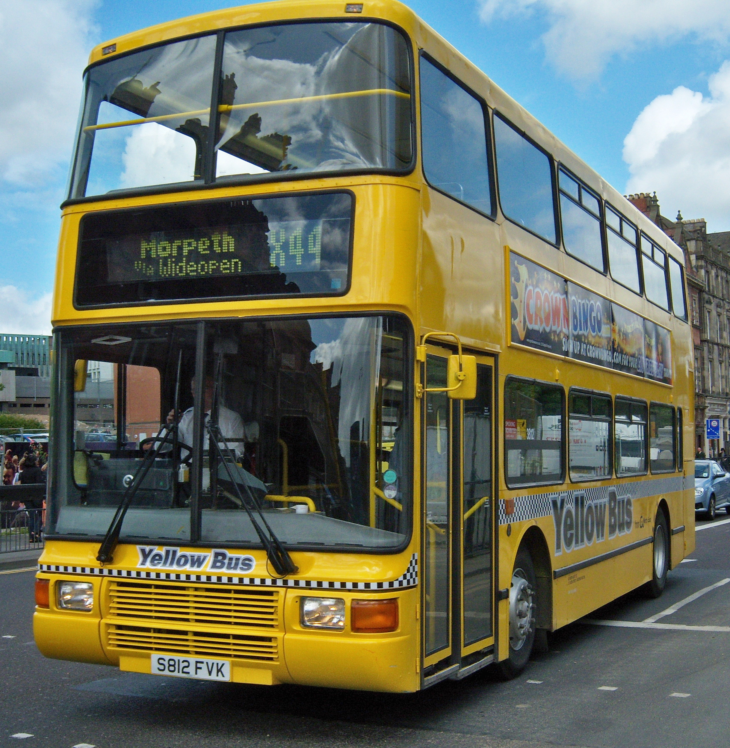 Go North East bus in Newcastle upon Tyne